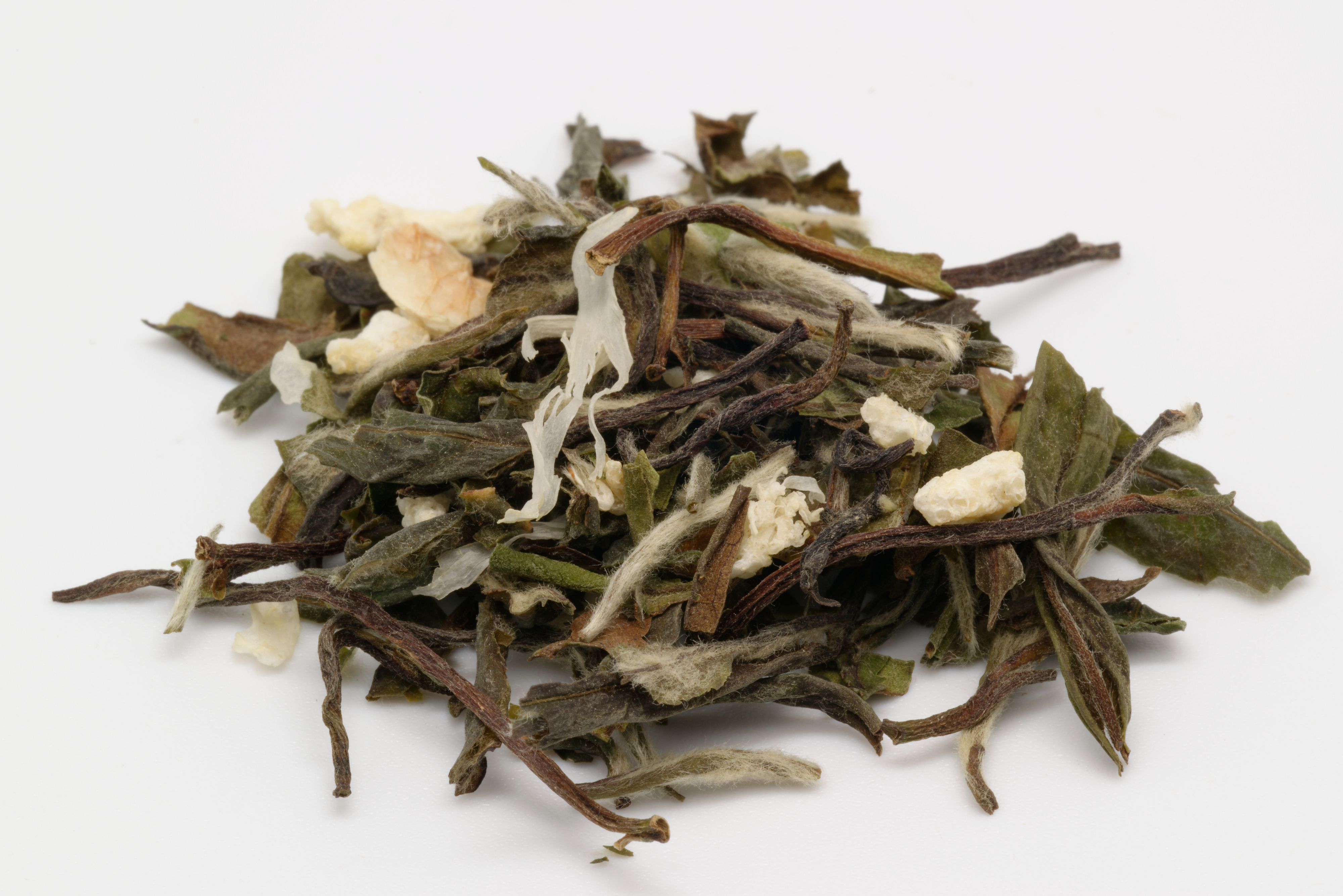 Great Earl Grey from Damann Frères: Paï Mu Tan white tea and dried bergamot peels.